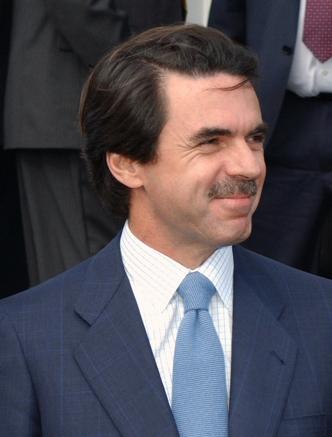 José María Aznar at the Azores with other world leaders.